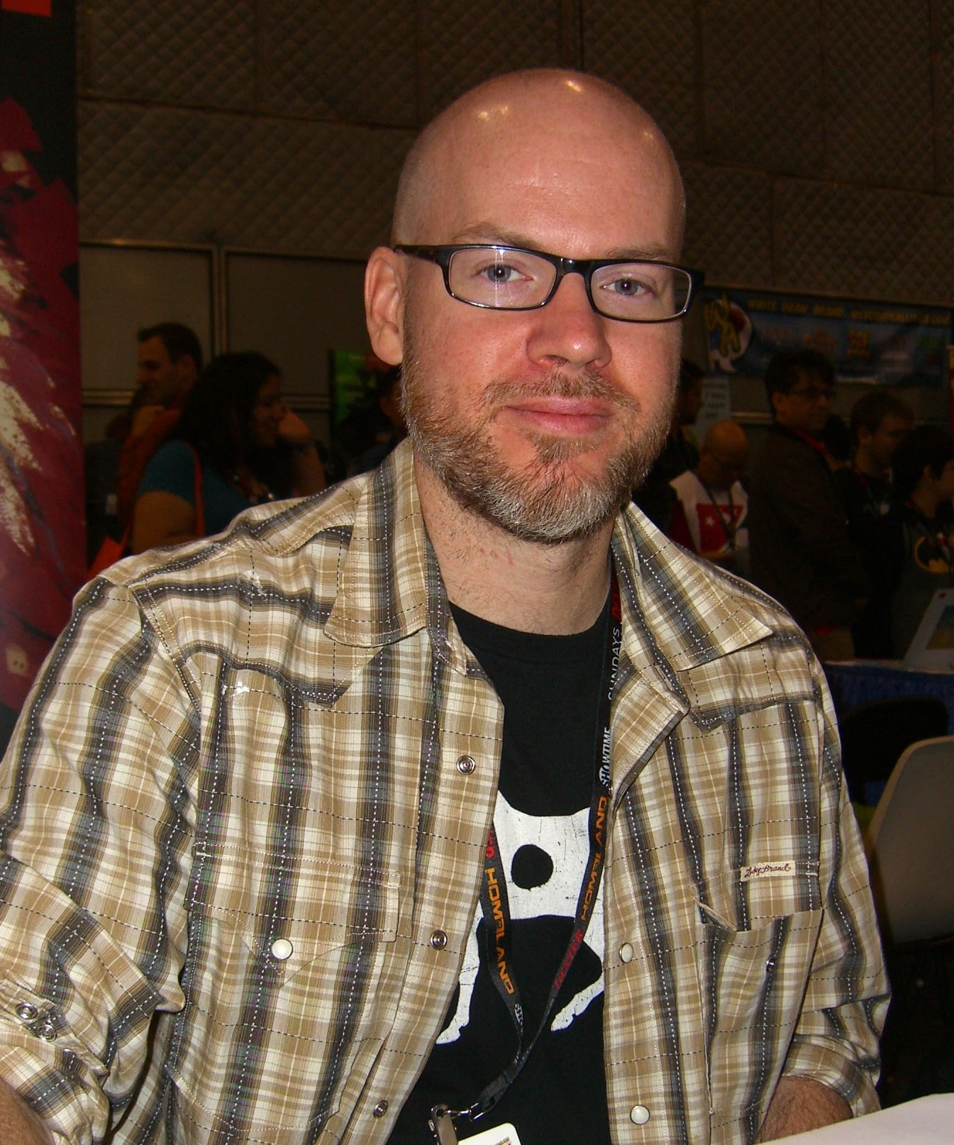 Comics creator Jason Latour during an October 16, 2011 appearance at the New York Comic Con in Manhattan. This photo was created by Luigi Novi. It is not in the public domain, and use of this file outside of the licensing terms is a copyright violation.